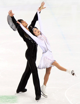 Yuko Kawaguchi and Alexander Smirnov at the 2010 Winter Olympics (SP).